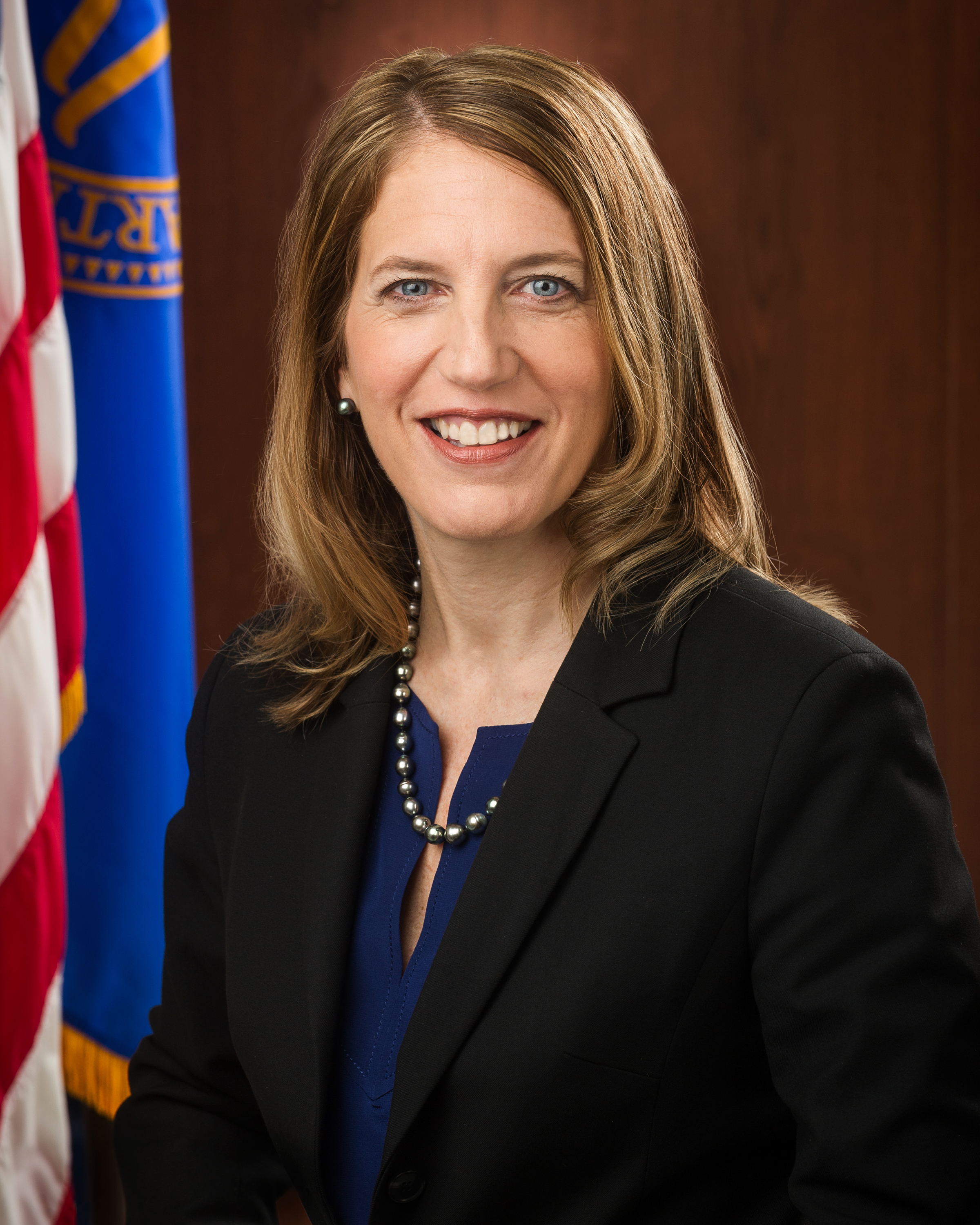 Official portrait of Health & Human Services Secretary Sylvia Mathews Burwell.